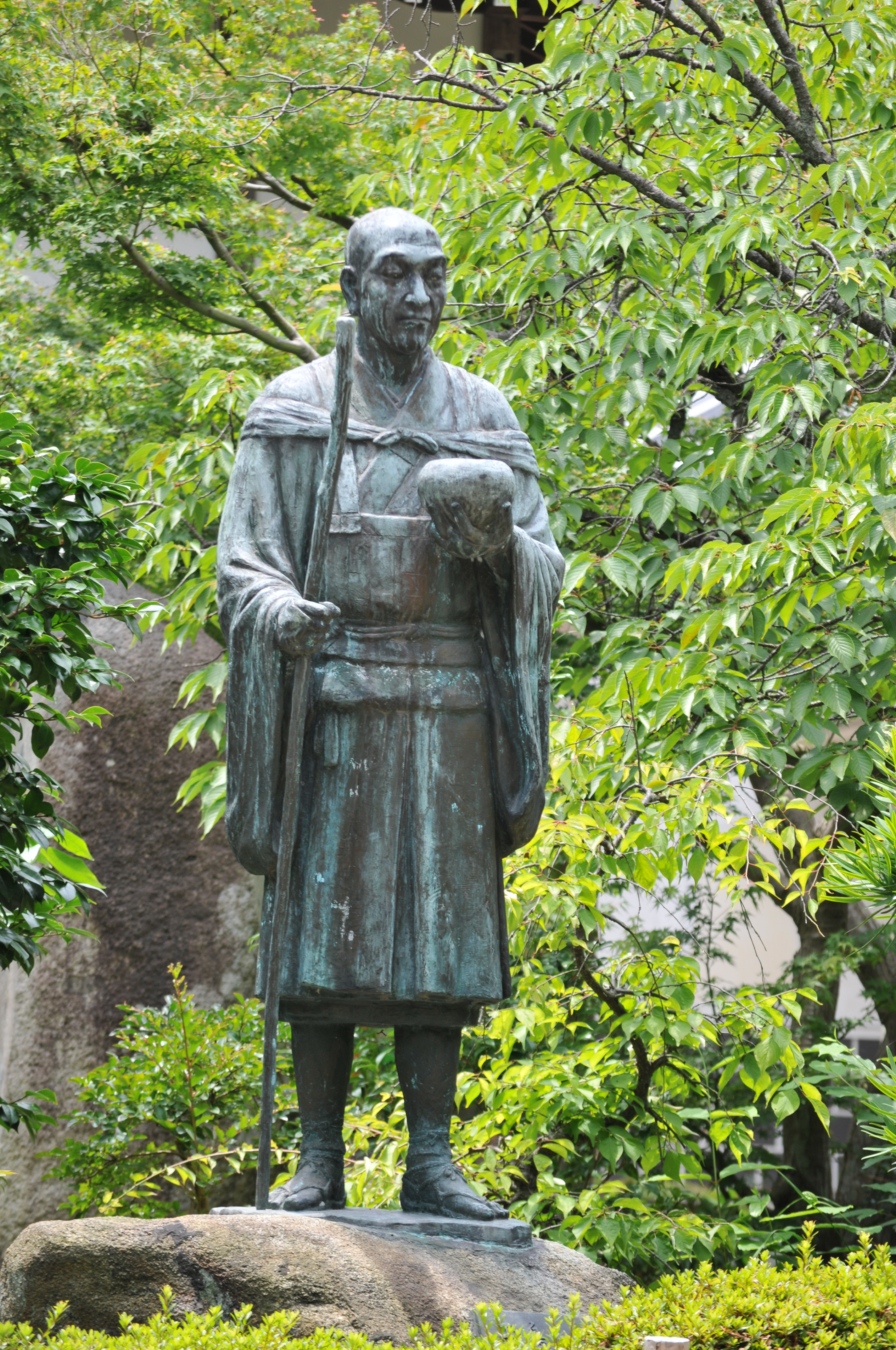 statue of Ryokan in Entsu-ji Temple in the study age